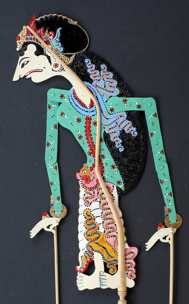 Putri Manditahib, wayang kulit figure from the wayang shadow play Serat Menak Sasak